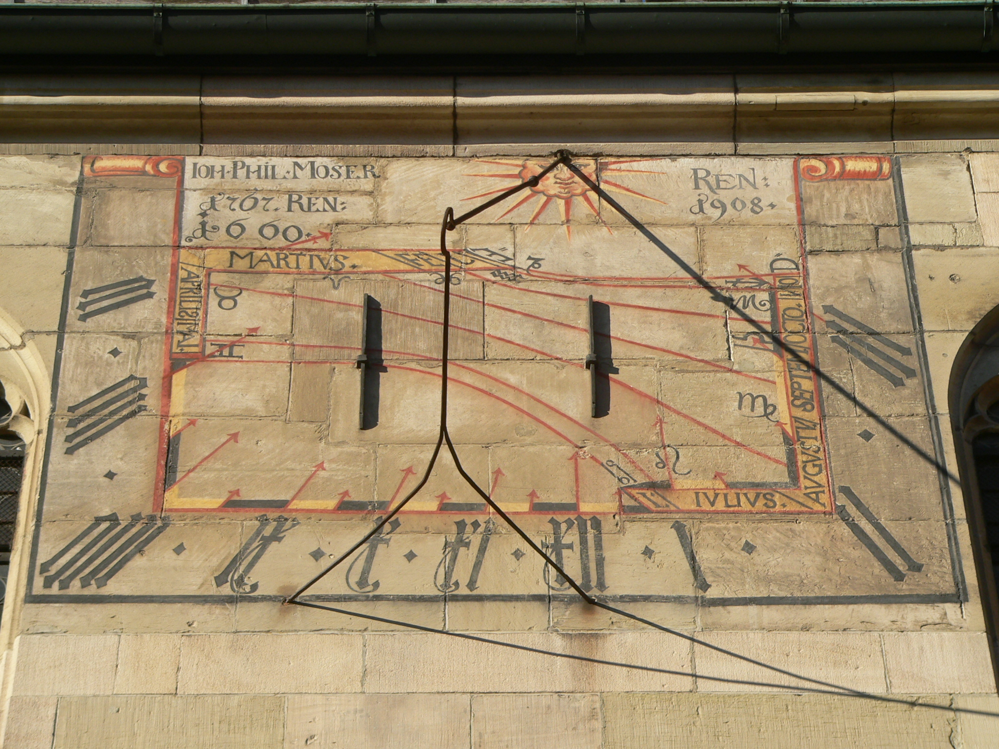 Sun dial of the church Evangelische Stadtkirche in Schorndorf, Germany